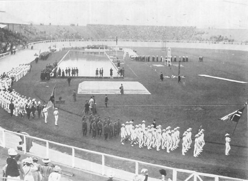 Cook, Theodore Andrea (1909-May) The Fourth Olympiad London 1908 Official Report (PDF), London: British Olympic Association, pp. p. 49 Retrieved on 4 February 2008. (Cook died in 1929.)